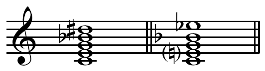 Dominant seventh raised ninth vs dominant seventh split third chord. Created by Hyacinth (talk) 11:54, 2 July 2011 (UTC) using Sibelius 5.